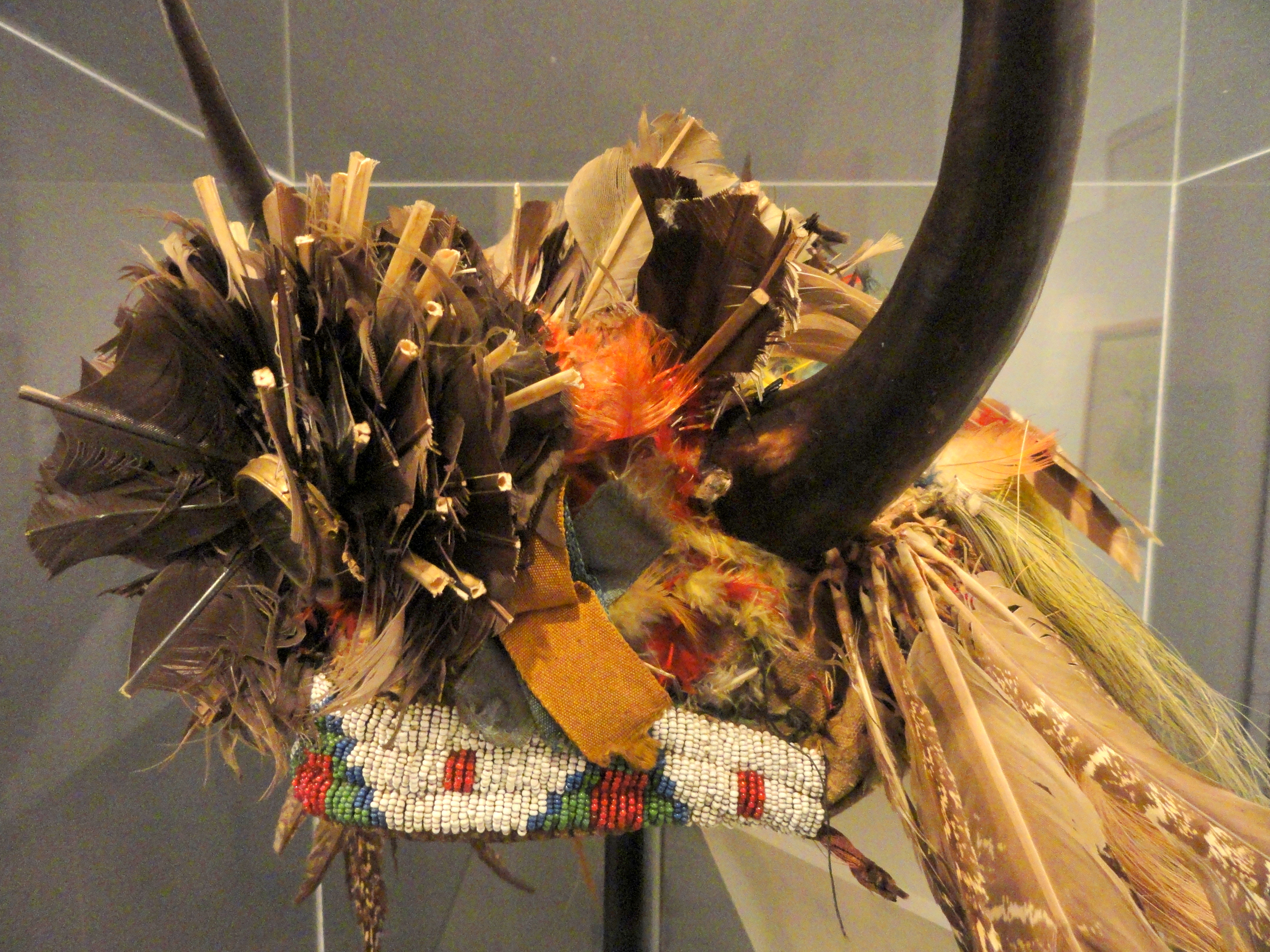 Lakota dance headdress, collected in 1897. Exhibit from the Native American Collection, Peabody Museum, Harvard University, Cambridge, Massachusetts, USA. Photography was permitted without restriction; exhibit is old enough so that it is in the public domain.